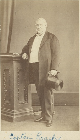 Henry Roach, captain of the Burra mine, circa 1890